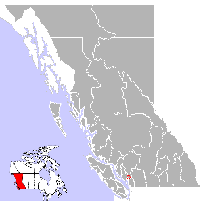 Squamish, British Columbia location.